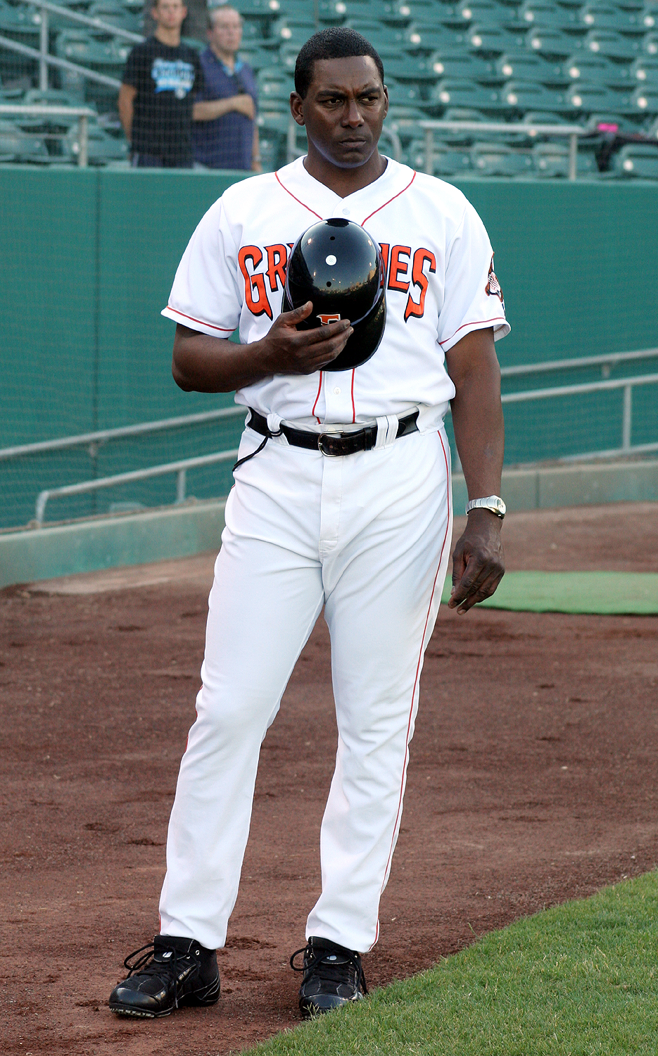 Fresno Grizzlies Vs.The Colorado Springs Sky Sox 6-18-09.